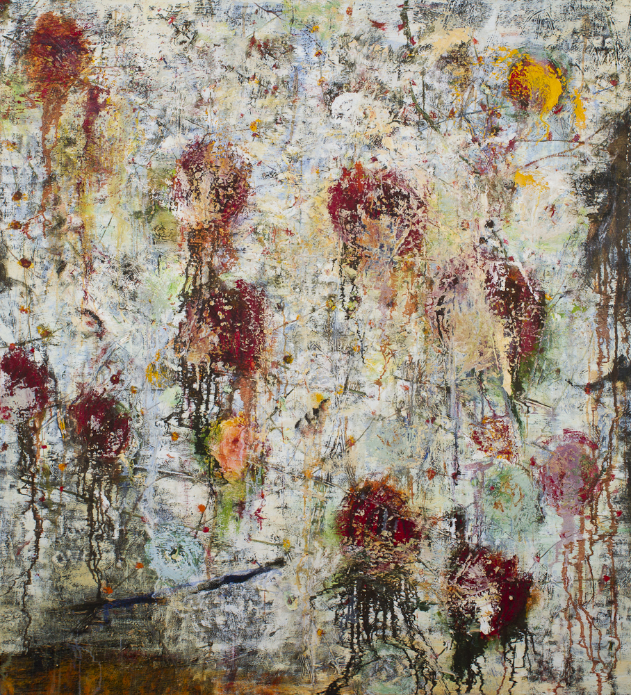 Painting by Adam Shaw